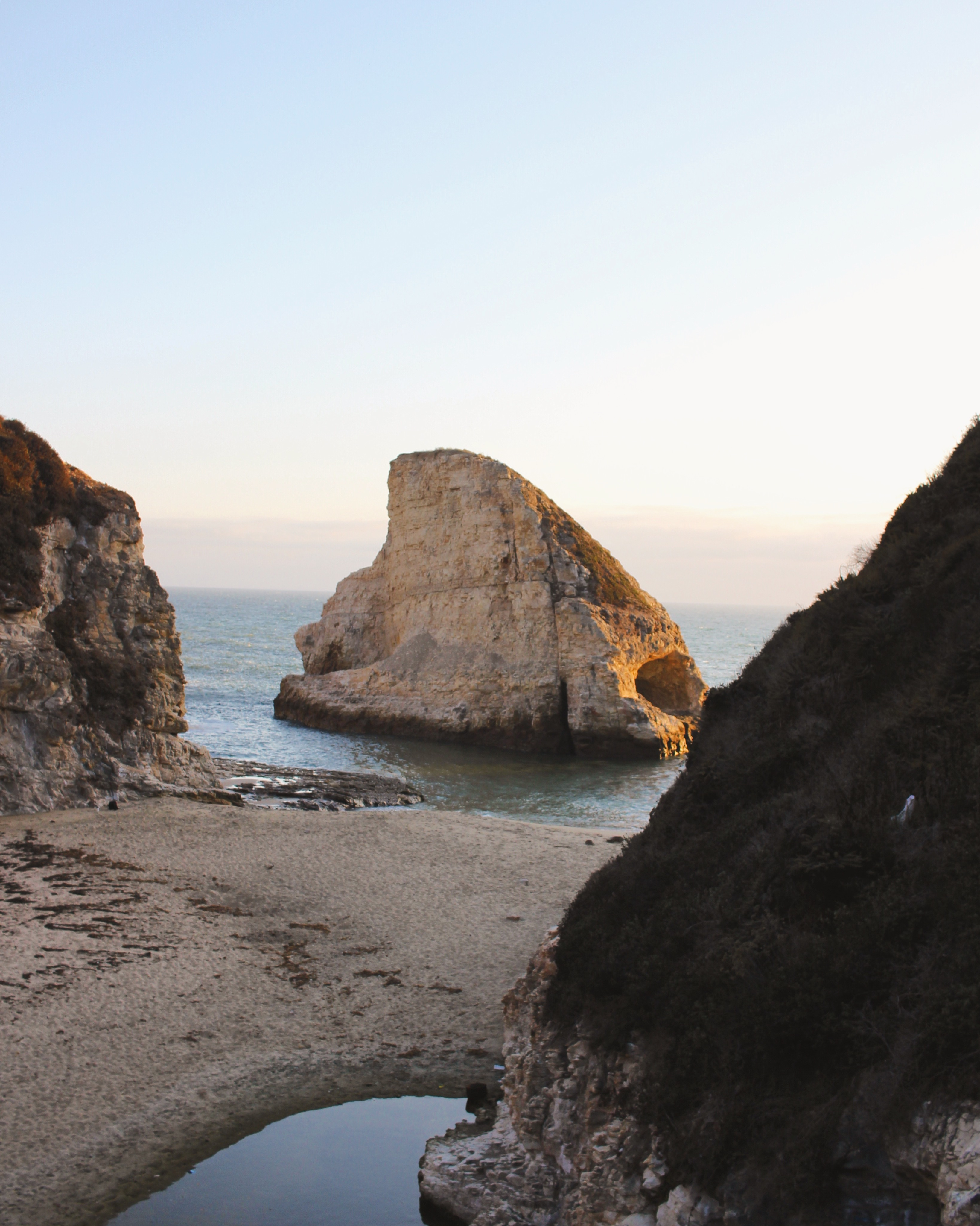 Shark Fin Cove is a popular photographer's spot along the coast of Davenport, CA. (Picture Via mattjphotos)